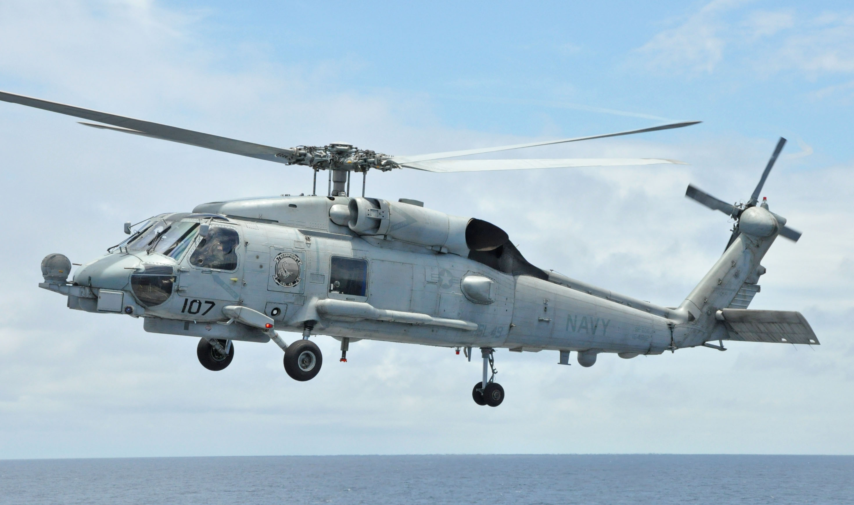 A U.S. Navy SH-60B Seahawk helicopter assigned to Helicopter Anti-Submarine Squadron Light (HSL) 49 takes off from the guided missile frigate USS Rentz (FFG 46) to go on a counter drug patrol in support of Operation Martillo, Sept. 21, 2013, in the Pacific Ocean. Operation Martillo is a joint, interagency and multinational collaborative effort to deny transnational criminal organizations air and maritime access to the littoral regions of the Central American isthmus. (U.S. Navy photo by Lt. Cmdr. Corey Barker/Released) Unit: Defense Imagery Management Operations Center DVIDS Tags: Airborne operations; helicopter; USN; U.S. Navy; Operation Martillo